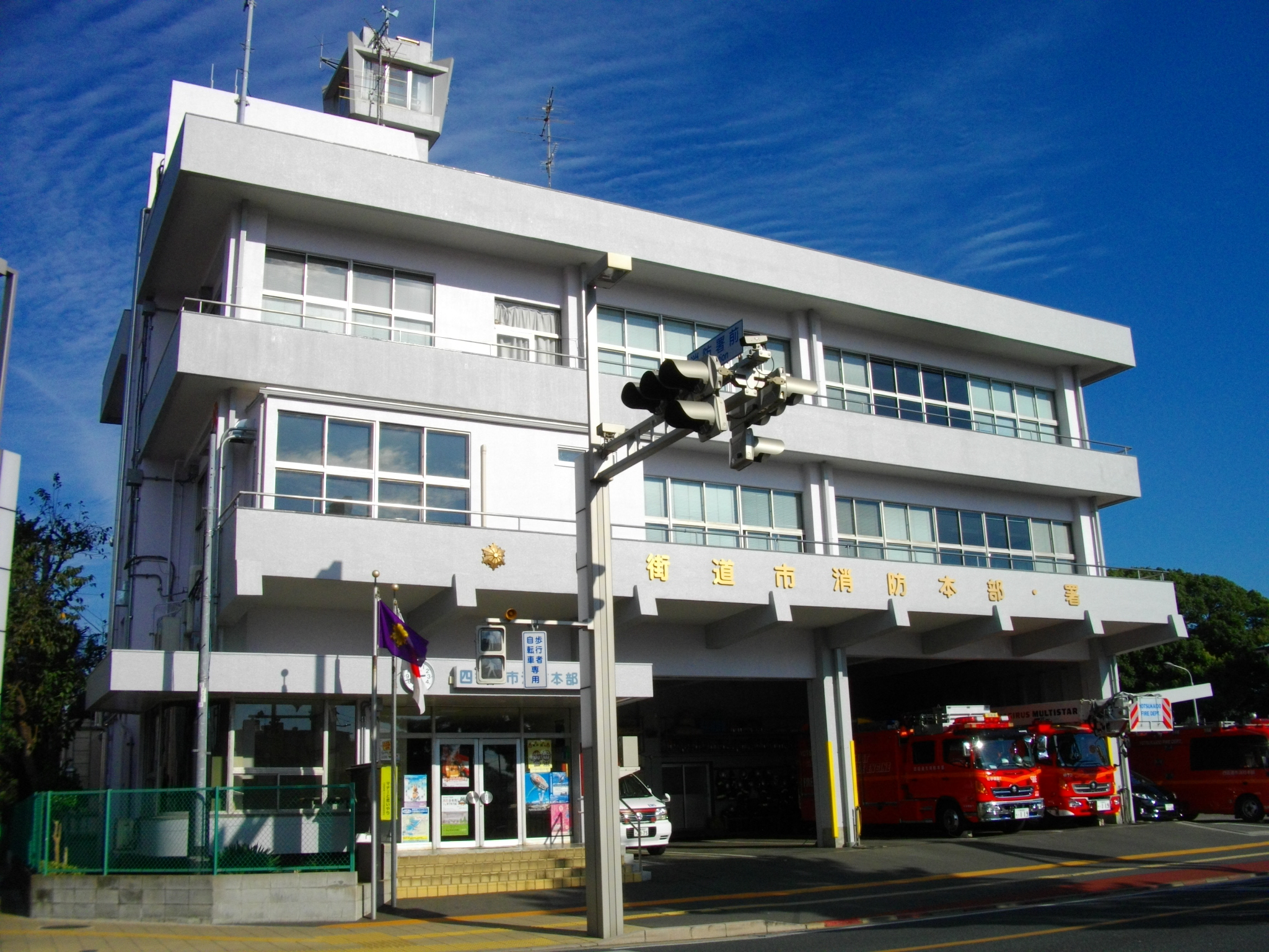 Yotsukaido City Fire Department